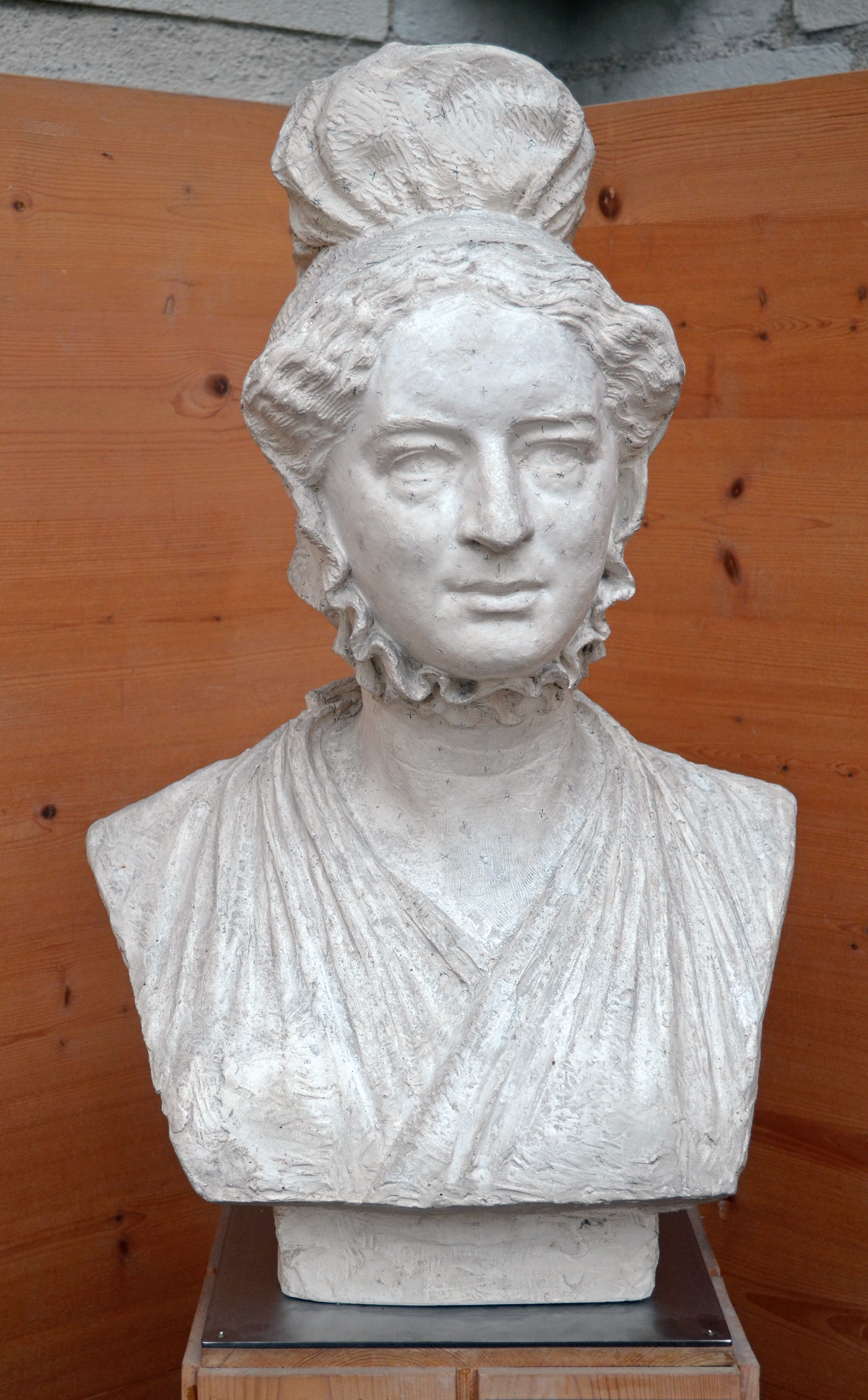 Amelia Opie's bust by sculptor David d'Angers (1839). Exhibited in David d'Angers gallery, Angers, France.